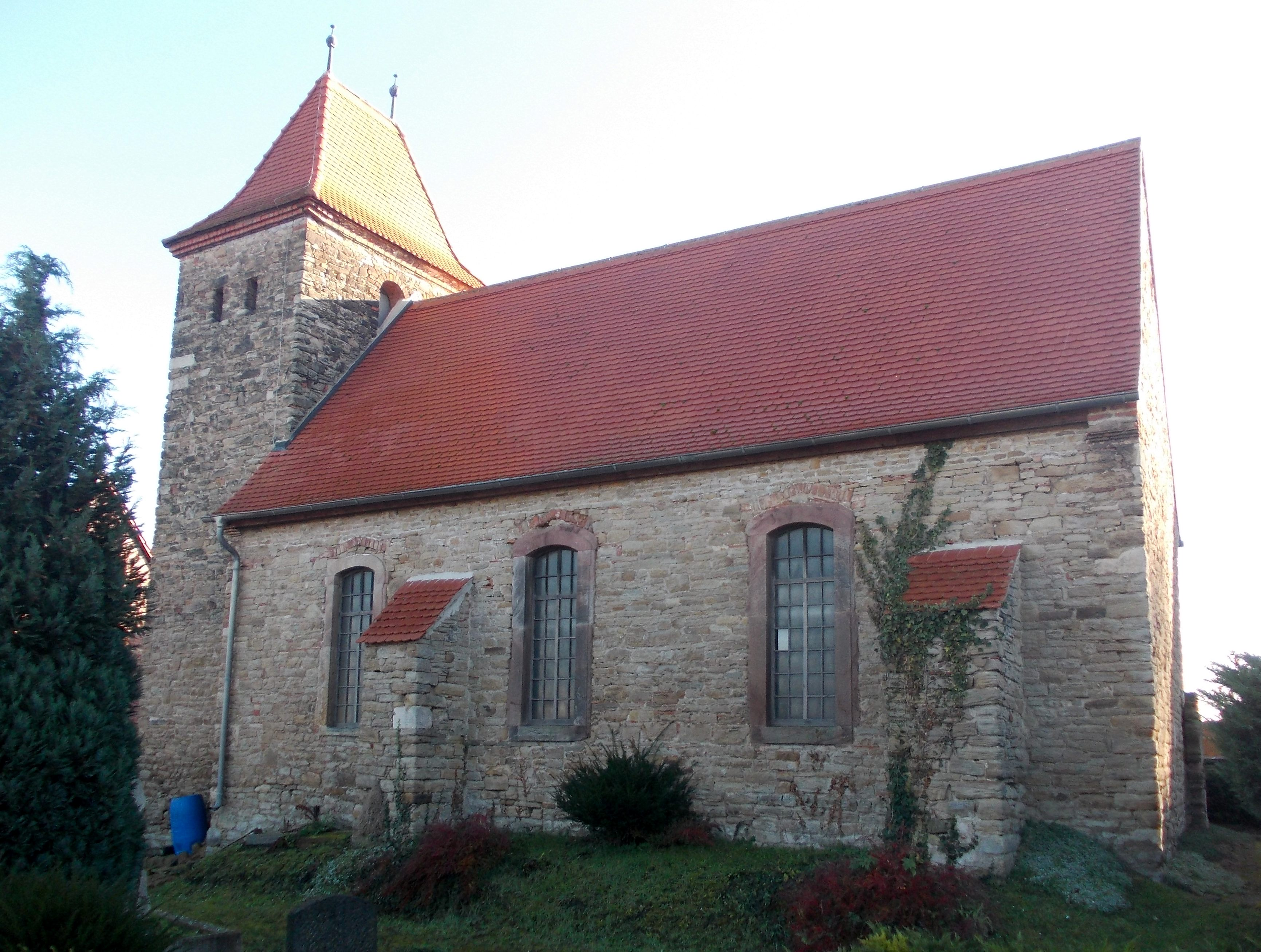 Zscherben church (Merseburg, district: Saalekreis, Saxony-Anhalt)